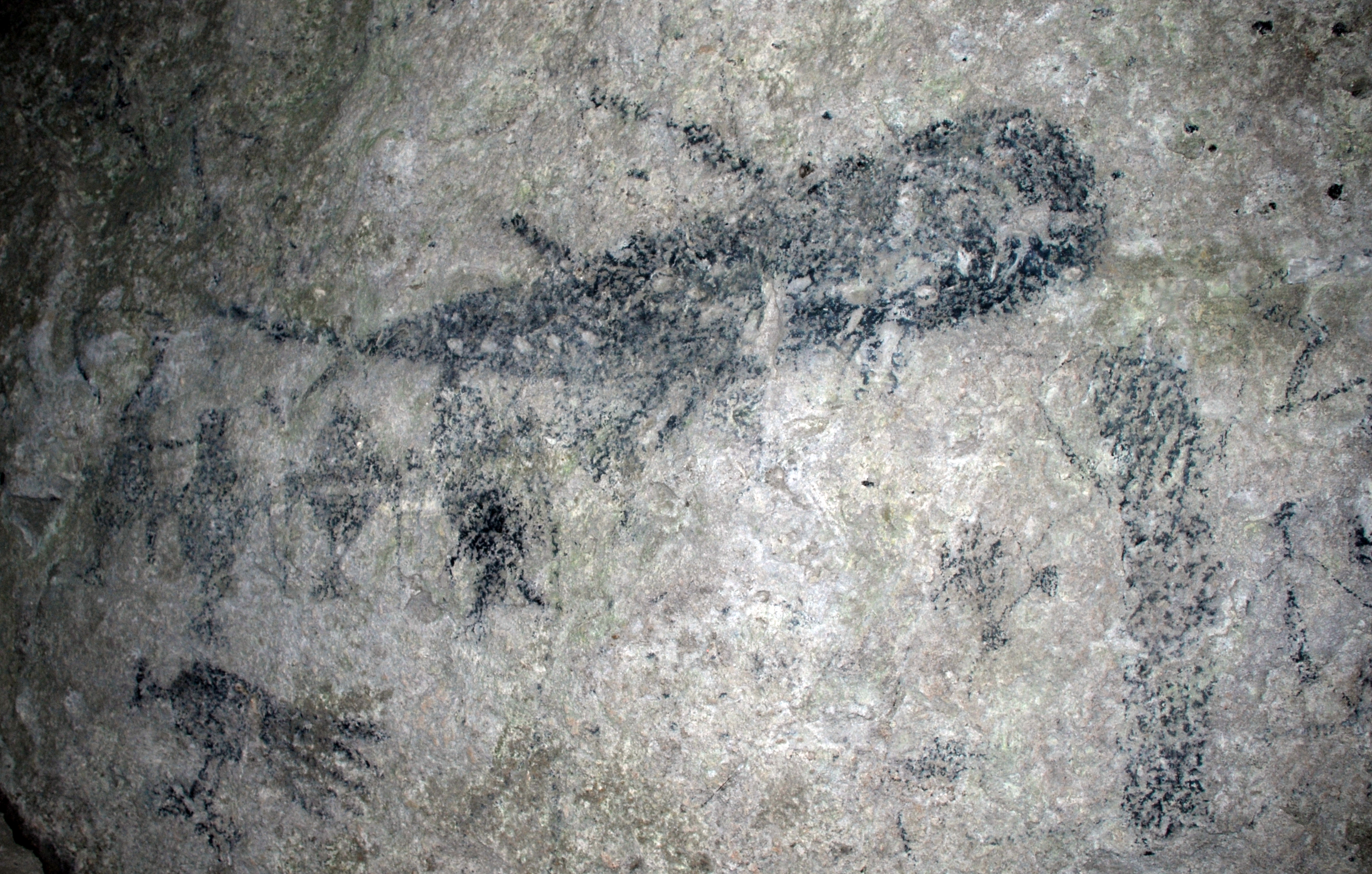 Cave drawings in Fels Cave, Lelepa Island. Except for a dating of 900AD, little is known about these cave drawings.